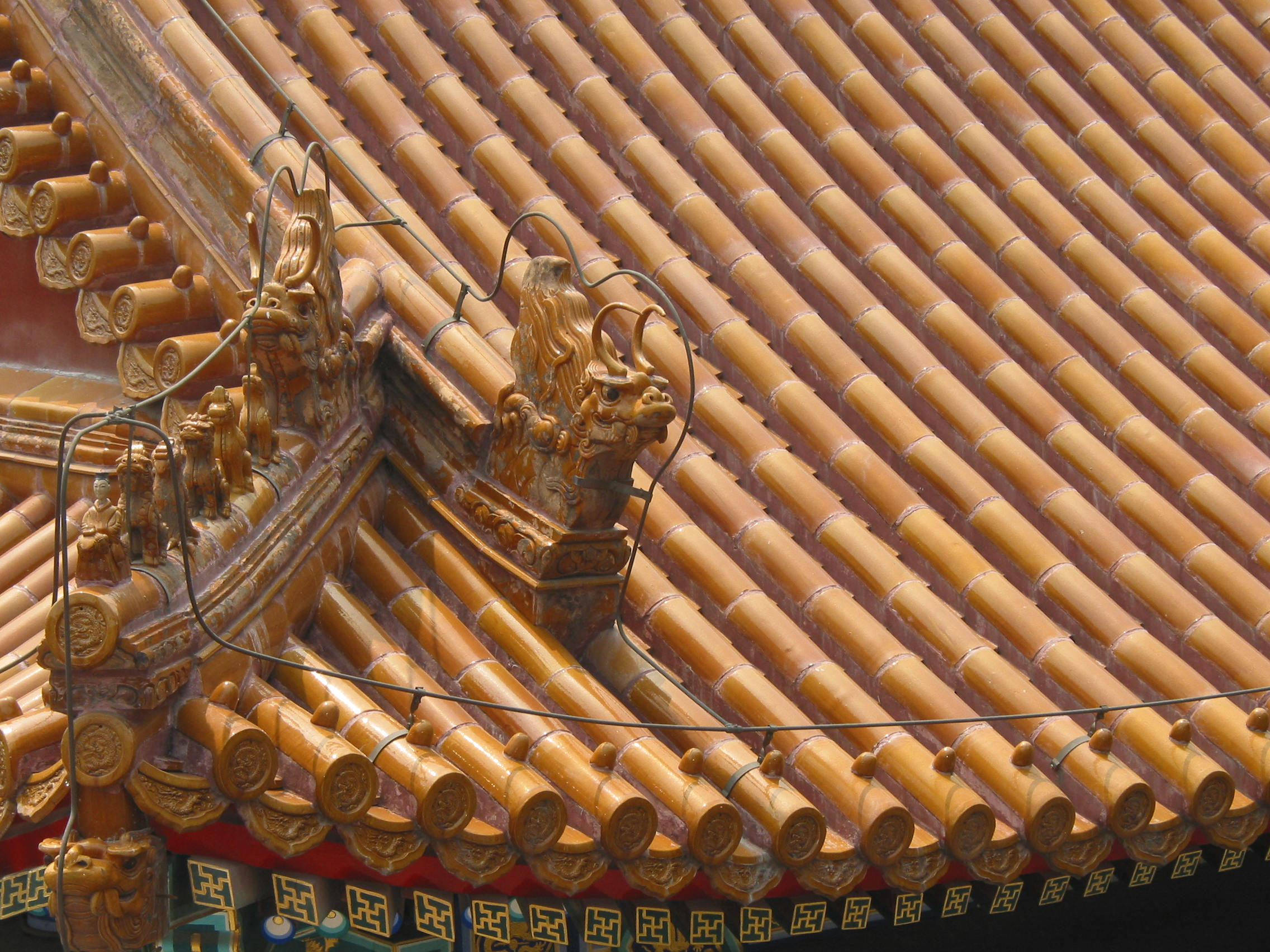 Stone Animals (垂兽, 戗兽, 仙人走兽, 套兽) on the eaves of the Hall of Dispelling Clouds in Summer Palace, Beijing, China